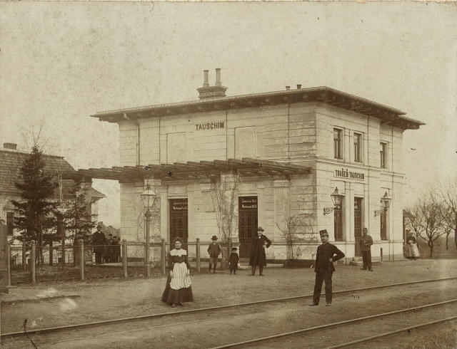 Lázně Toušeň - rail station